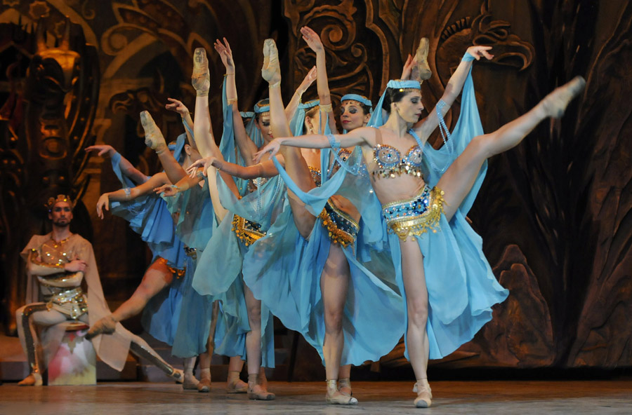 Scene from Seven beauties ballet